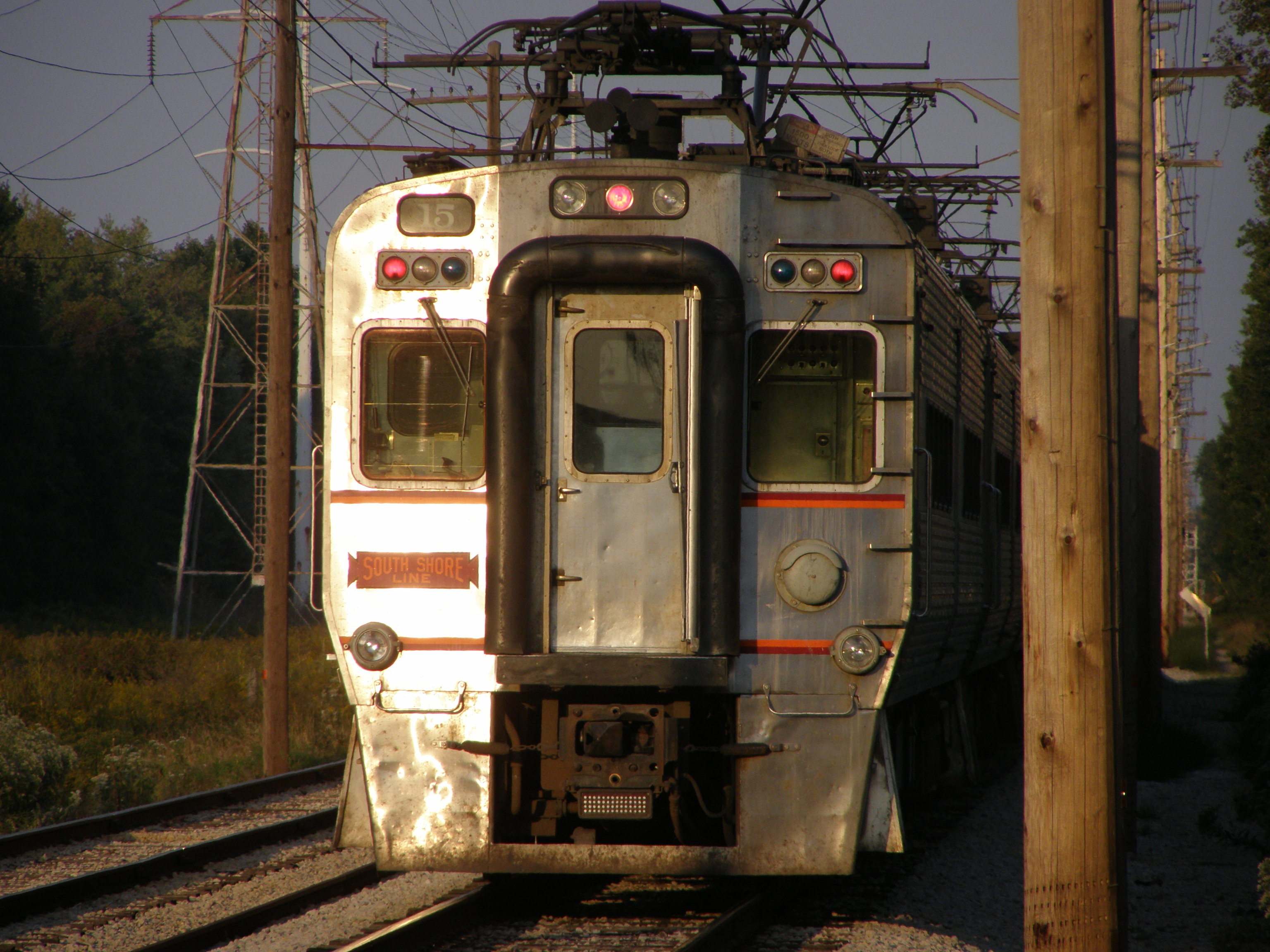 Back end of a South Shore and South Bend train, headed towards South Bend from Dune Park